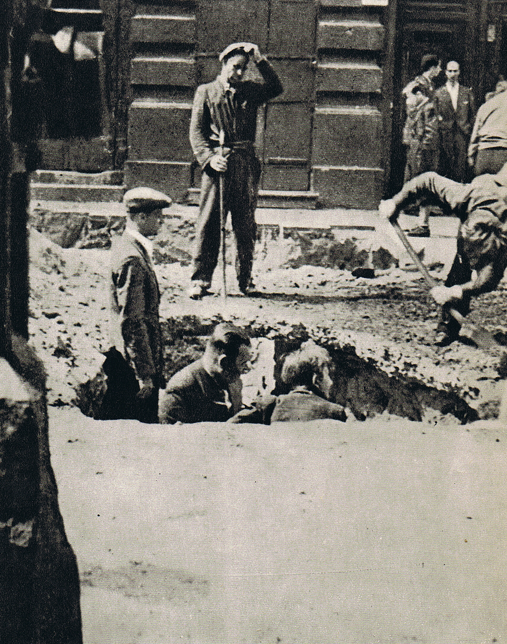 Warsaw Uprising: Construction of anti-tank ditch in Wola district.